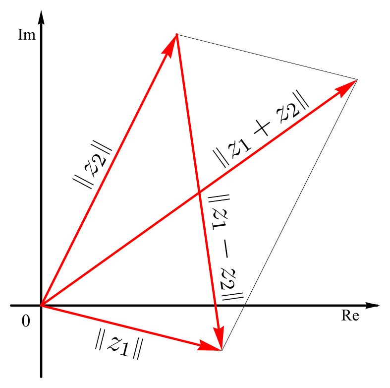 Argand diagram